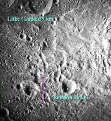 Annotated from AS15-M-1035